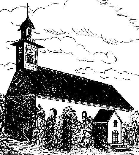 The Church at Kussen (Vesnovo) about 1900 (A drawing by Jost Schaper)